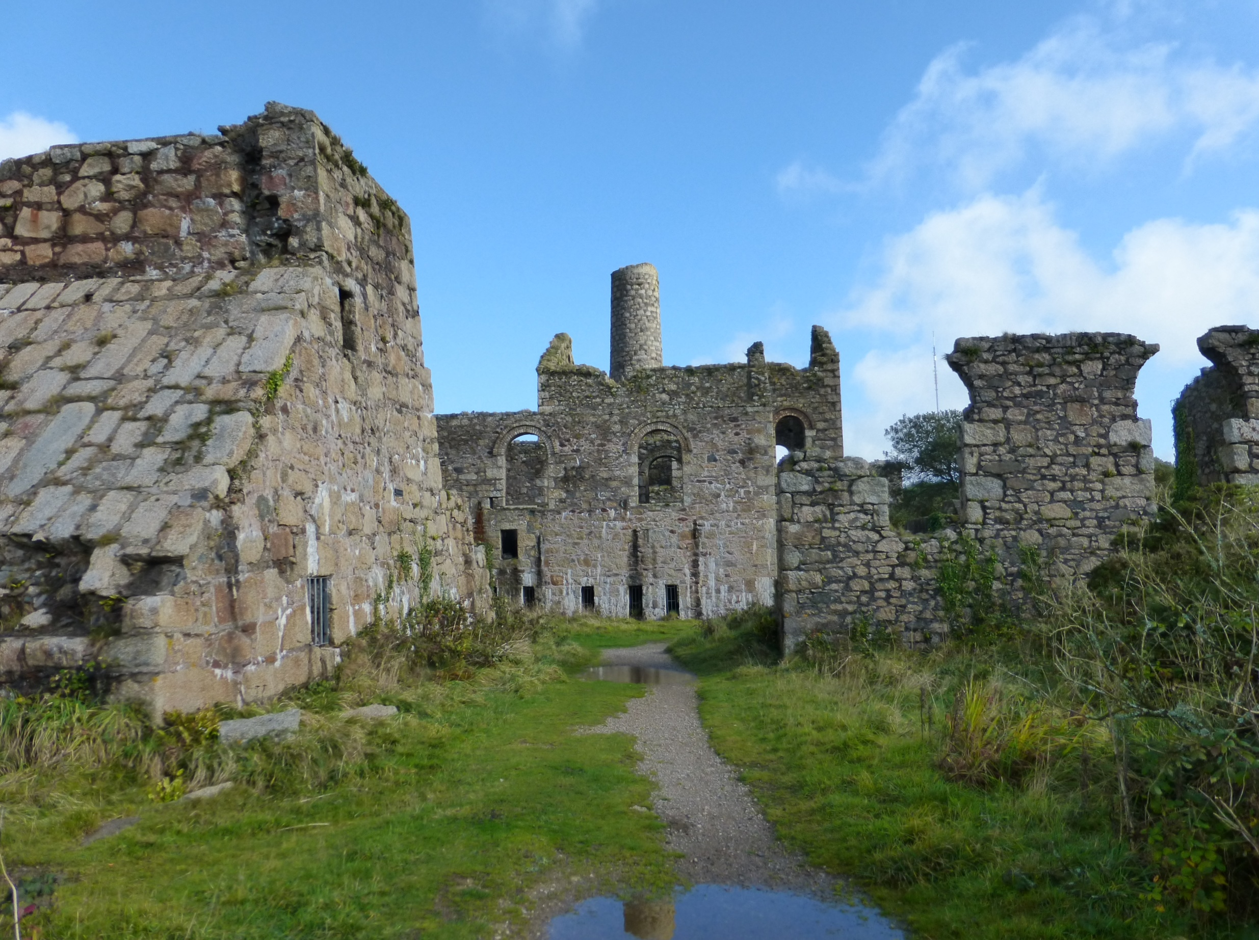 Part of the South Wheal Francis mining complex on the Great Flat Lode.